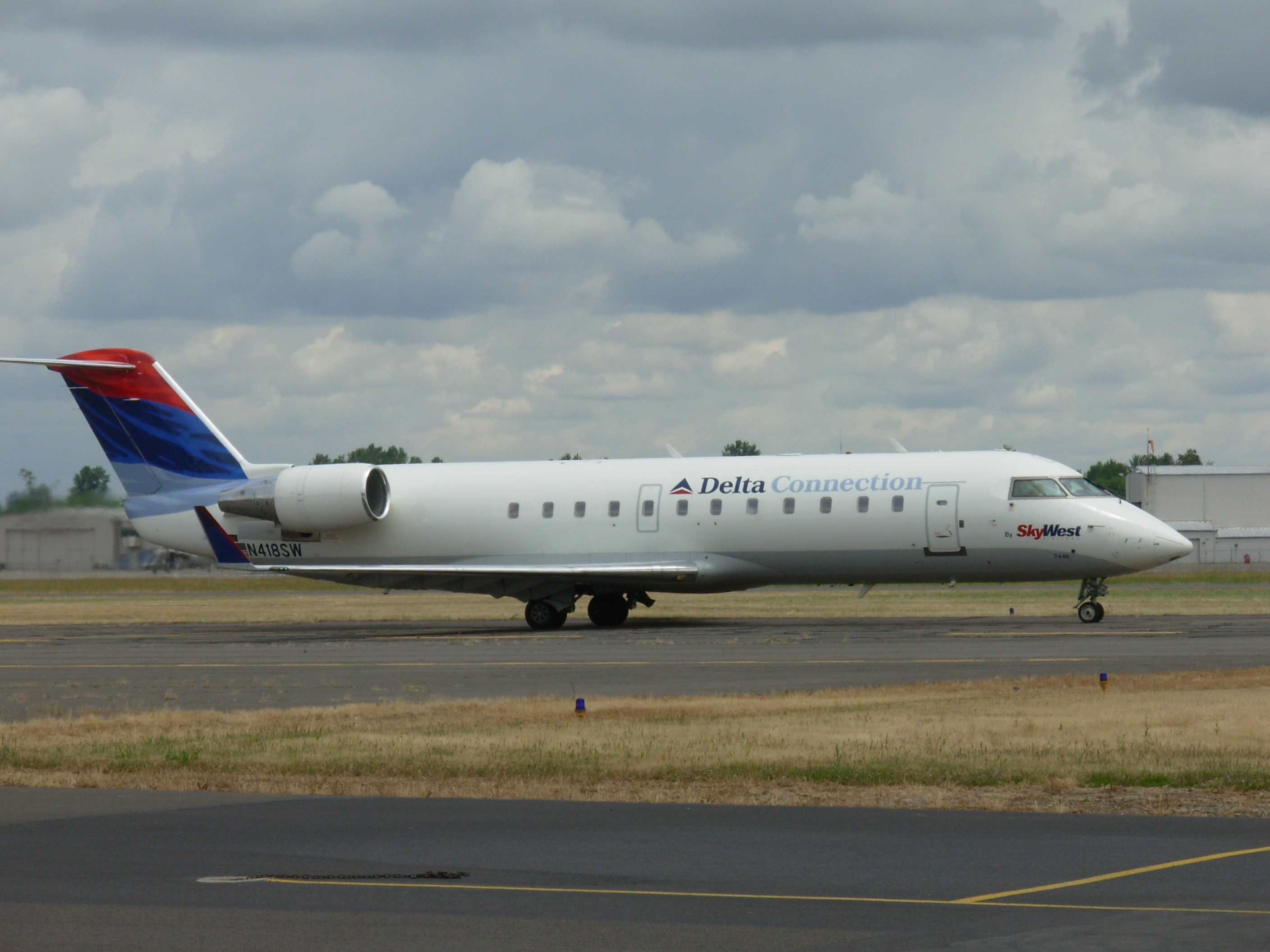 Registration N418SW of Delta Connection operated by SkyWest Airlines taxies out for departure at McNary Field in Salem, Oregon. Photo taken on June 7, 2007 inaugurating the return of commercial air service to Salem in over 10 years. Aircraft is a Bombardier 600-2B19 cn 7446.